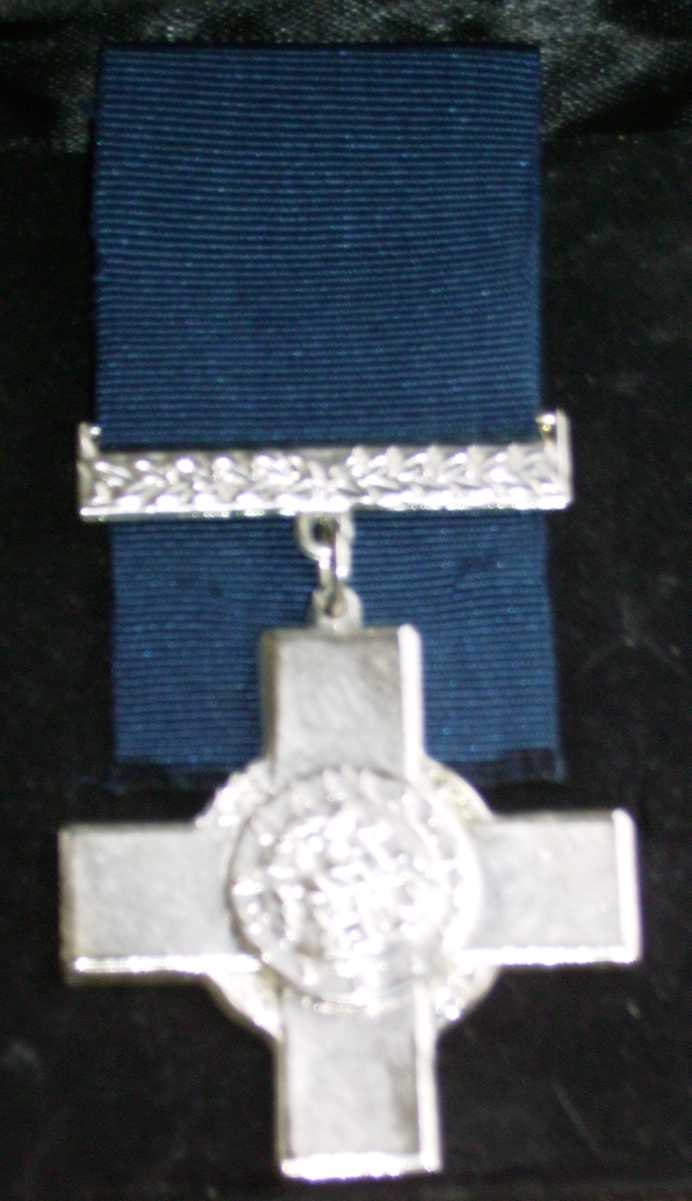 Picture of my GC